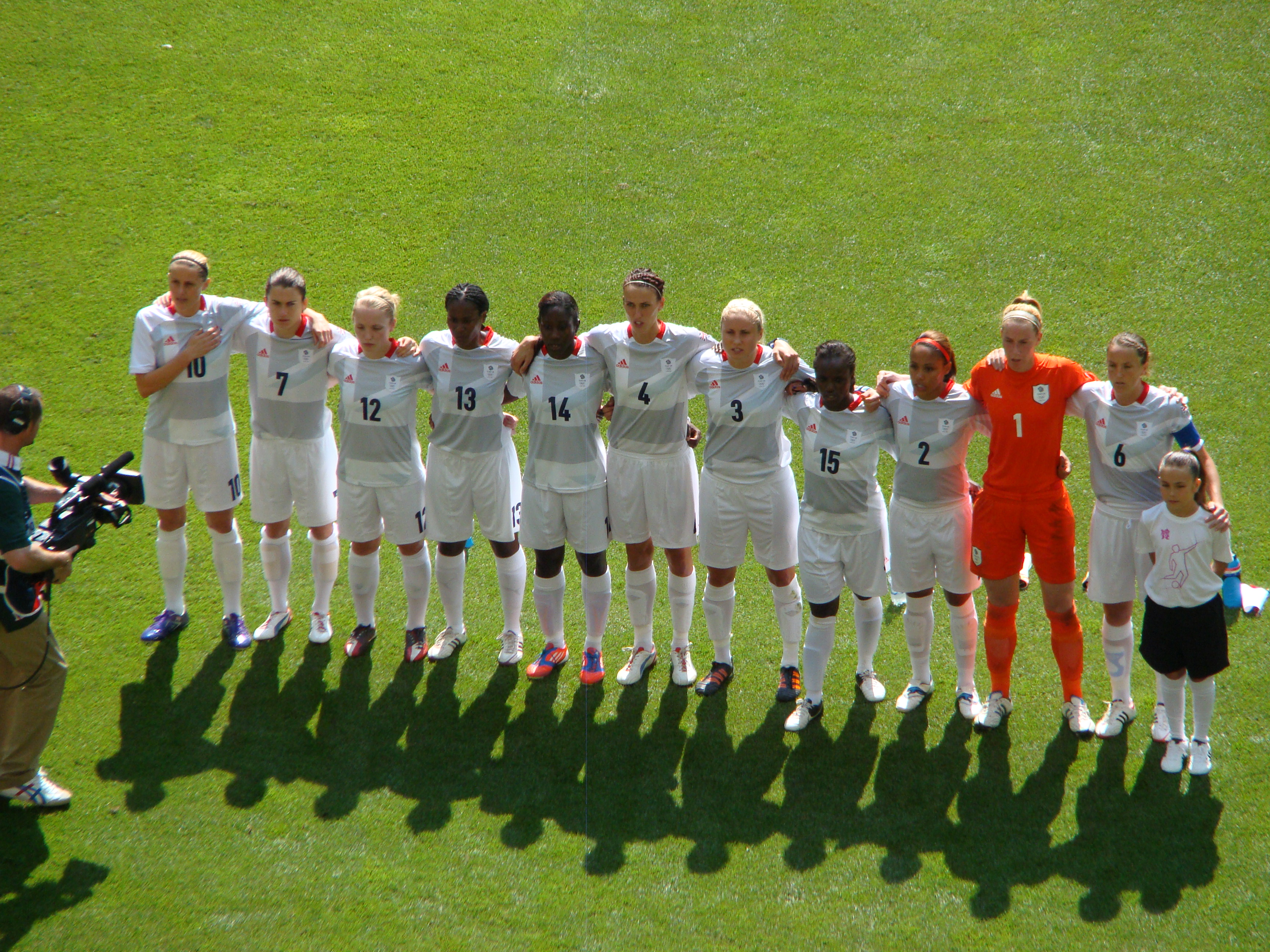 Team GB during anthem before a match between Team GB and New Zealand at the Olympics.